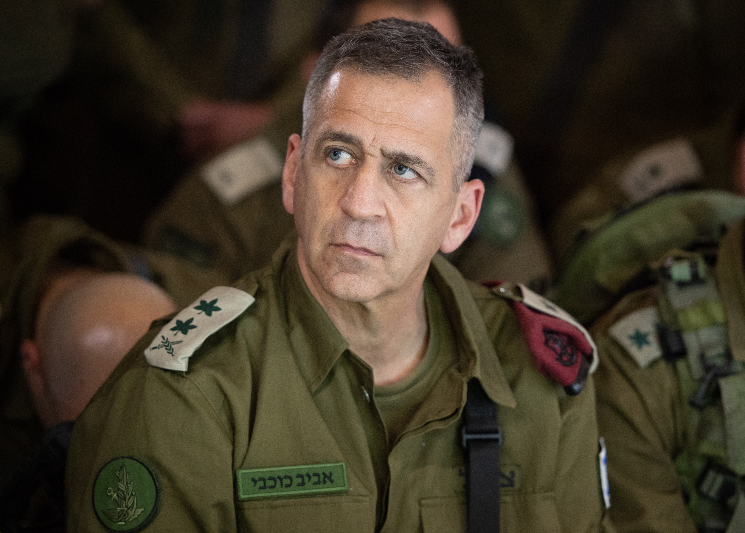 Aviv Kochavi Chief of General Staff of the IDF, in uniform